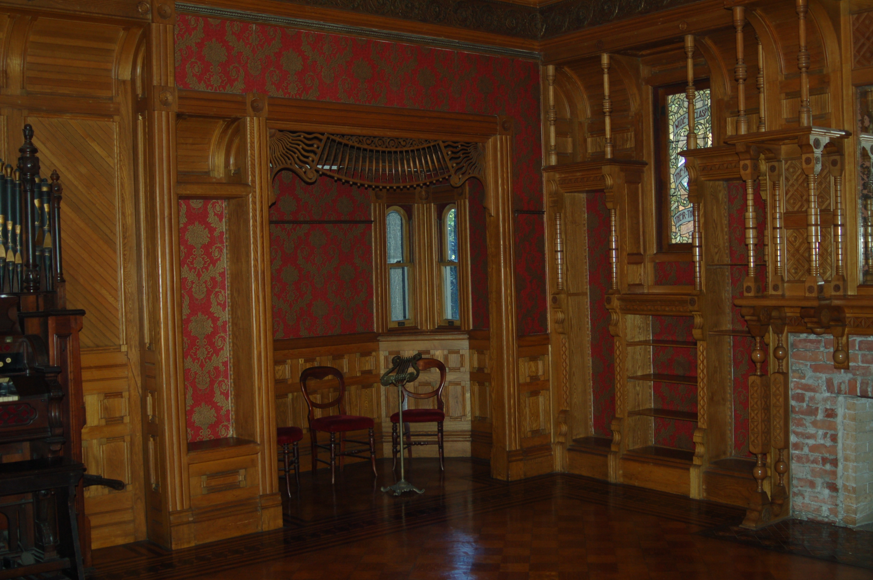 Music room